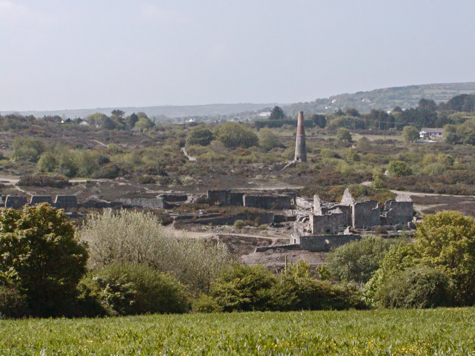 Ruins of the Poldice Mine in Gwennap, Cornwall. The Poldice Mine was active from early 16th century until 1930.